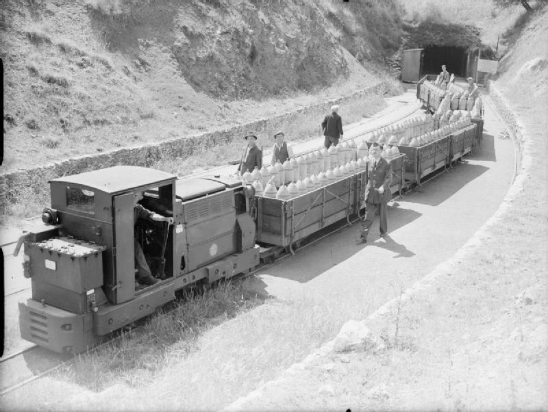 "250-lb MC bombs being transported out of No. 21 Maintenance Unit at Fauld, near Hanbury, Staffordshire, by light railway." (Original Imperial War Museum caption.)